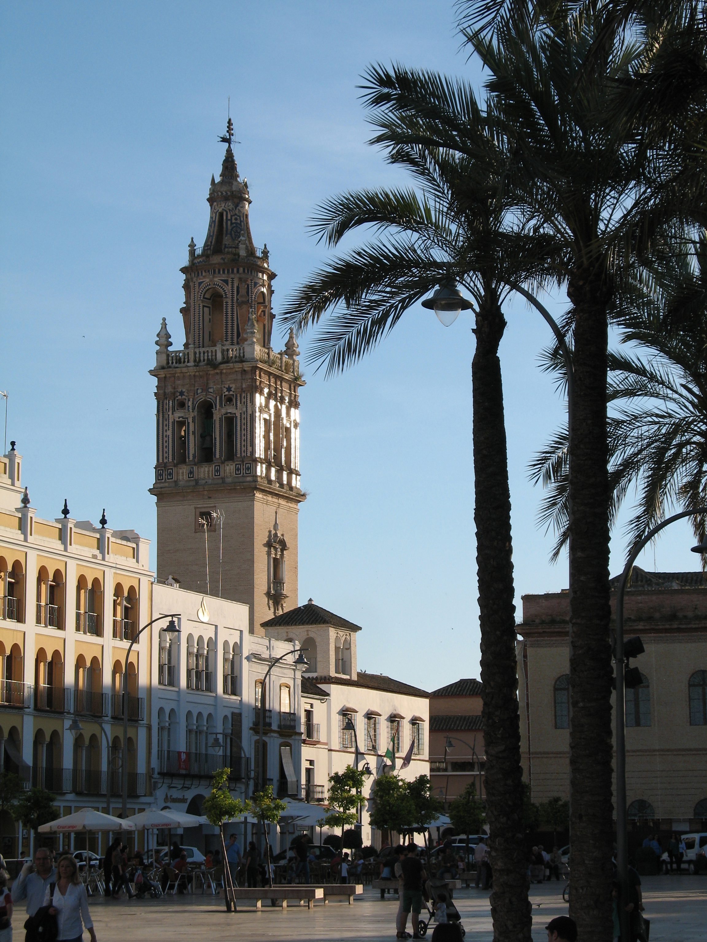 St. Mary's Church tower in Écija.